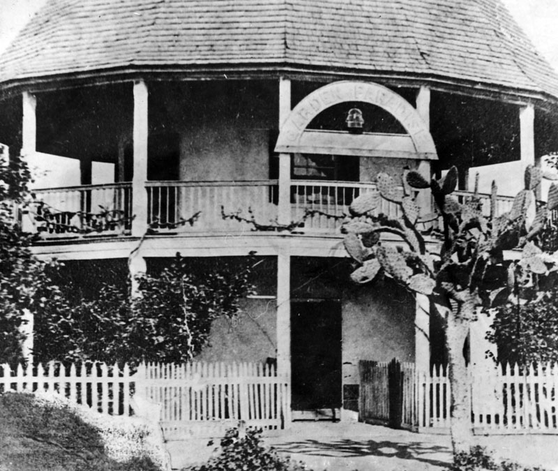 Close-up view of the Round House main entrance, located from Main to Spring streets, between 3rd and 4th. The cactus hedge that fenced the Spring Street front of the garden was still intact at this time, but the tree of knowledge had been cut down. The adobe Round House was a famous landmark of early days known as the "Garden of Paradise". After the garden closed, the city's first kindergarten was opened here. Photograph dated: 1880. Historical Notes: This adobe, known as the Round House as well as the "Garden of Paradise", was built in 1854 by Ramo�n Alexander as a gift to his Spanish bride Mari�a Valde�z, daughter of Basi�lio Valde�z, who came to Los Angeles from Spain in 1830. In the late 1850s, it was sold to German immigrant George Lehman, better known as "Round House George", and it long housed his famous beer garden known as the Garden of Paradise, which eventually became a famous landmark and a very popular pleasure resort at the time. After the garden closed, the city's first kindergarten was opened here, with Kate Douglas Wiggin as teacher. Sadly, it was torn down in or about 1887.